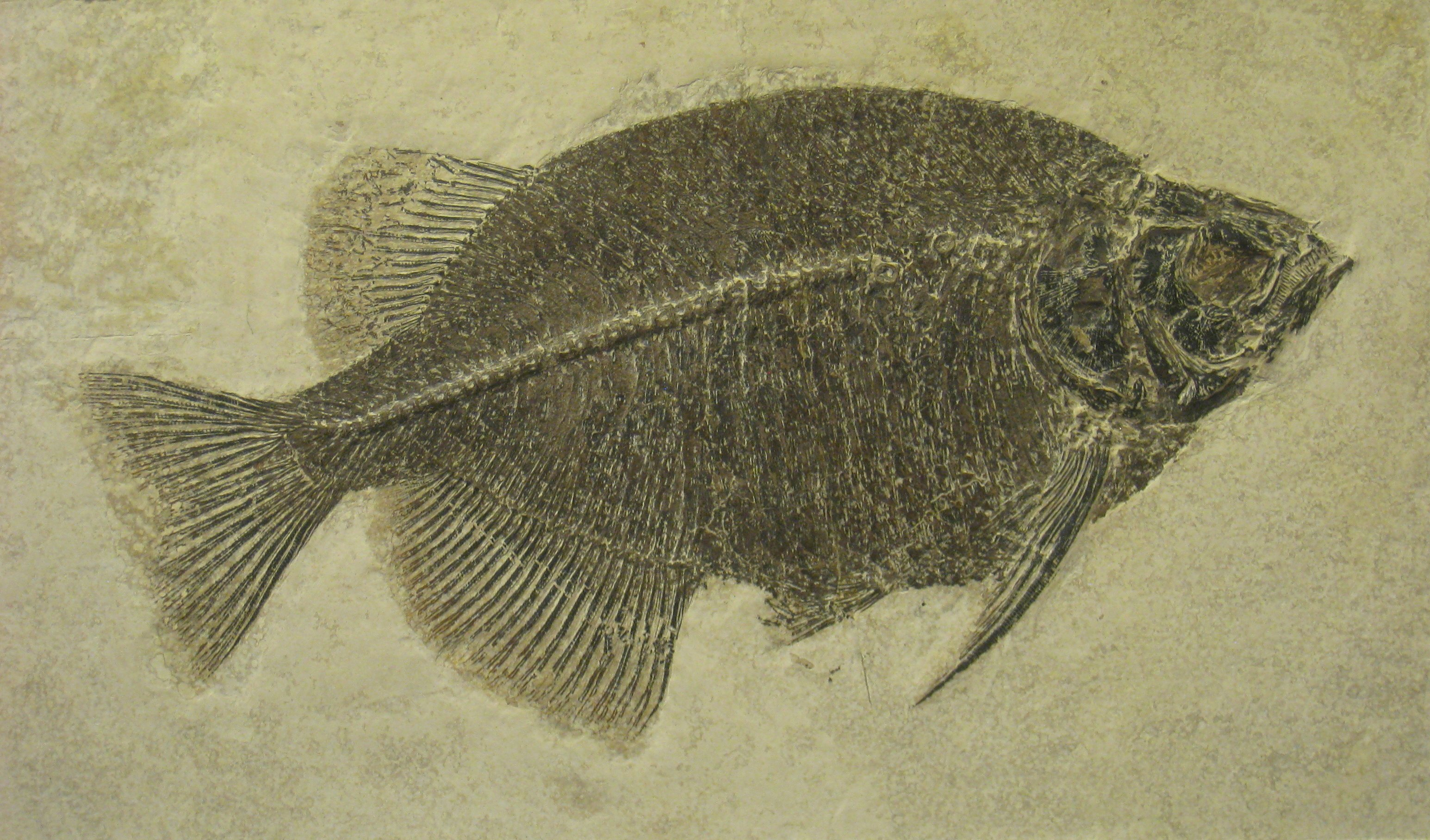 Crop of file in filename